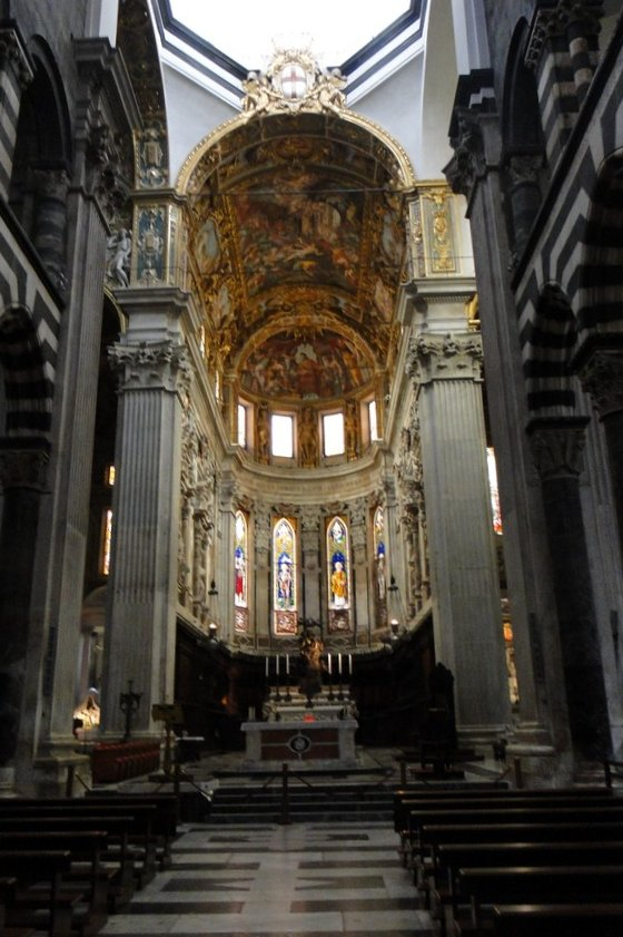 Genova cathedral (the Altar)